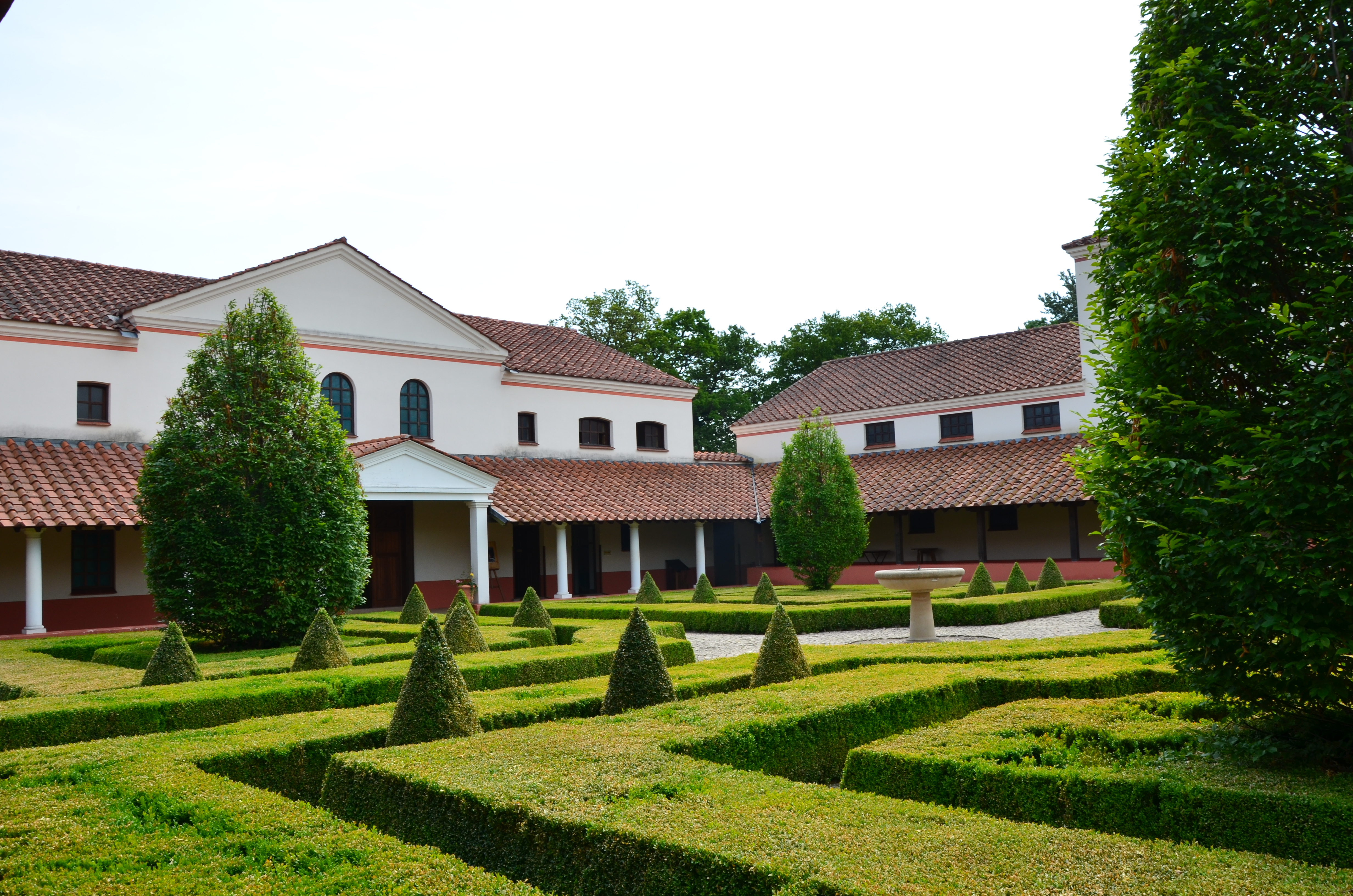 Roman Villa Borg, Germany